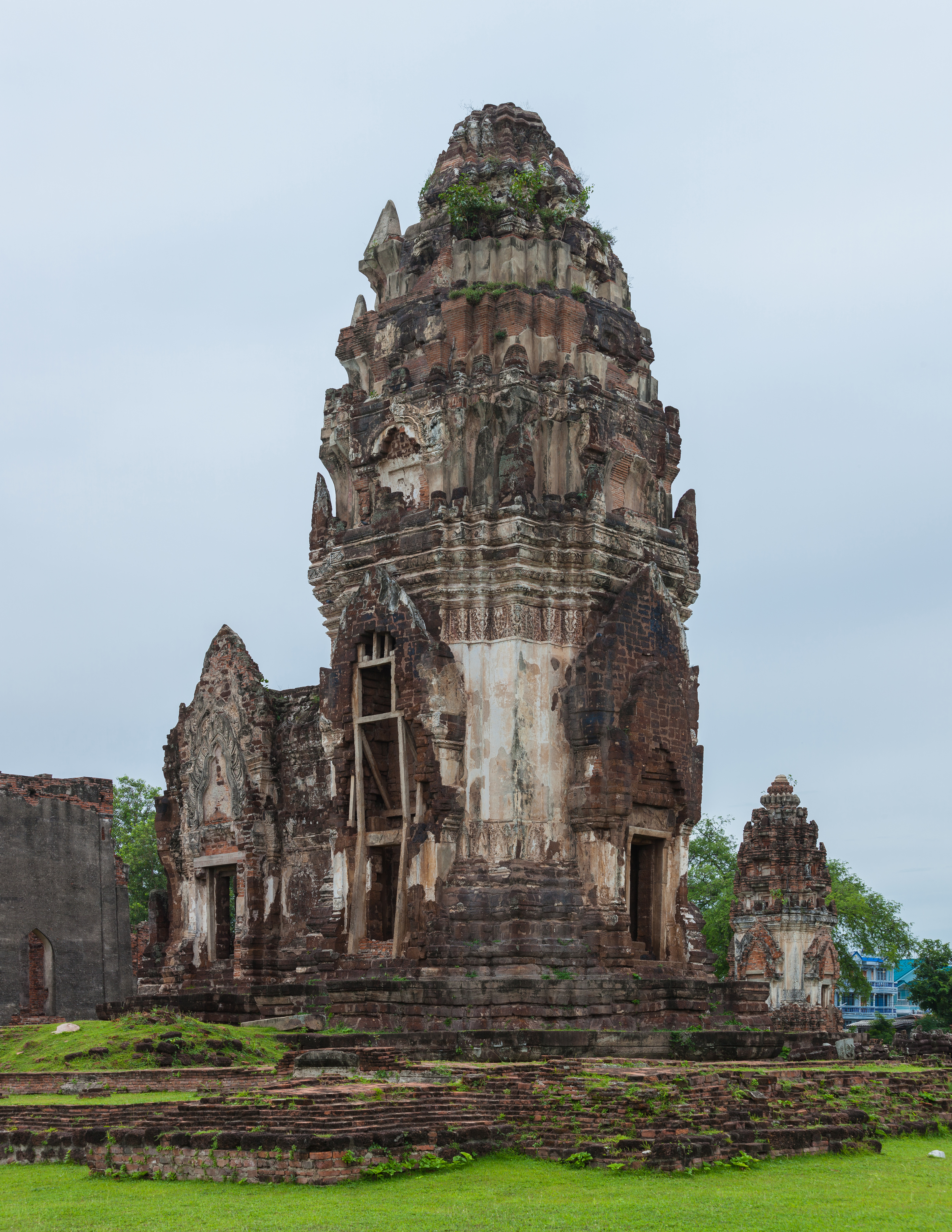 Phra Pang of Wat Phra Si Rattana Mahathat, a buddhist Temple (Wat) in Lop Buri, Mueang Lop Buri district, Lop Buri Province, Thailand.